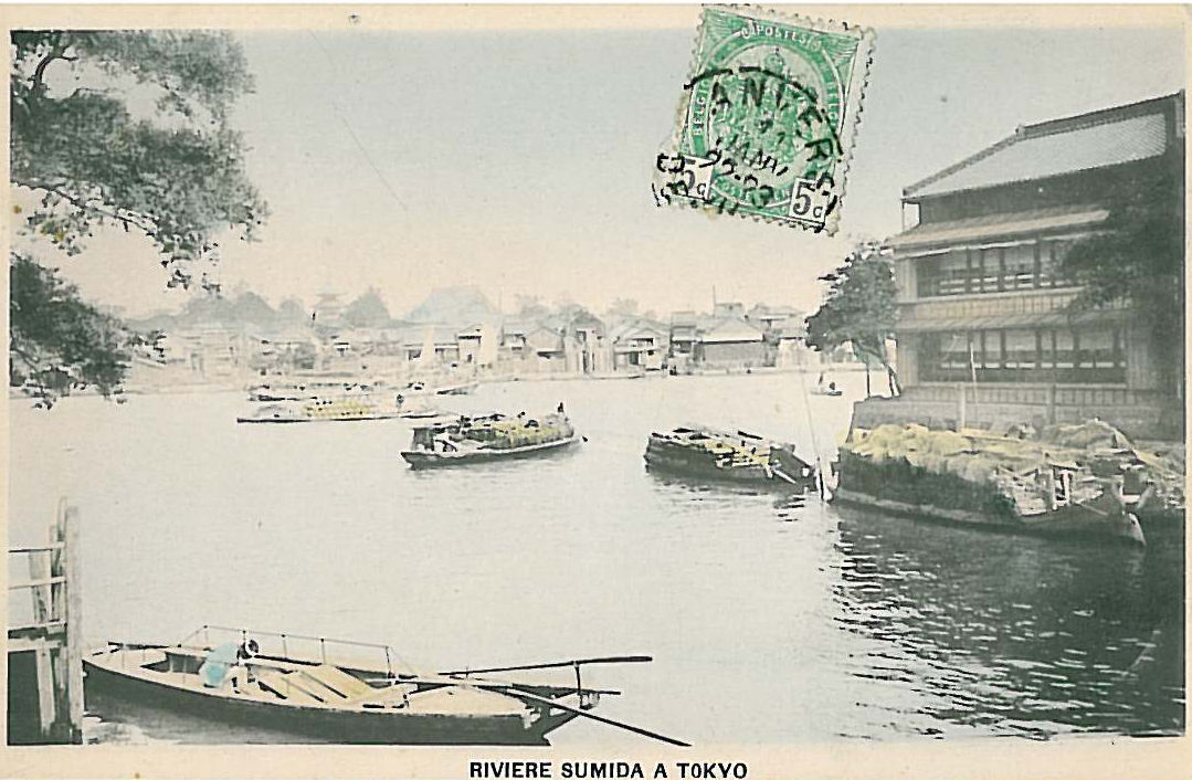 historical view of Tokyo